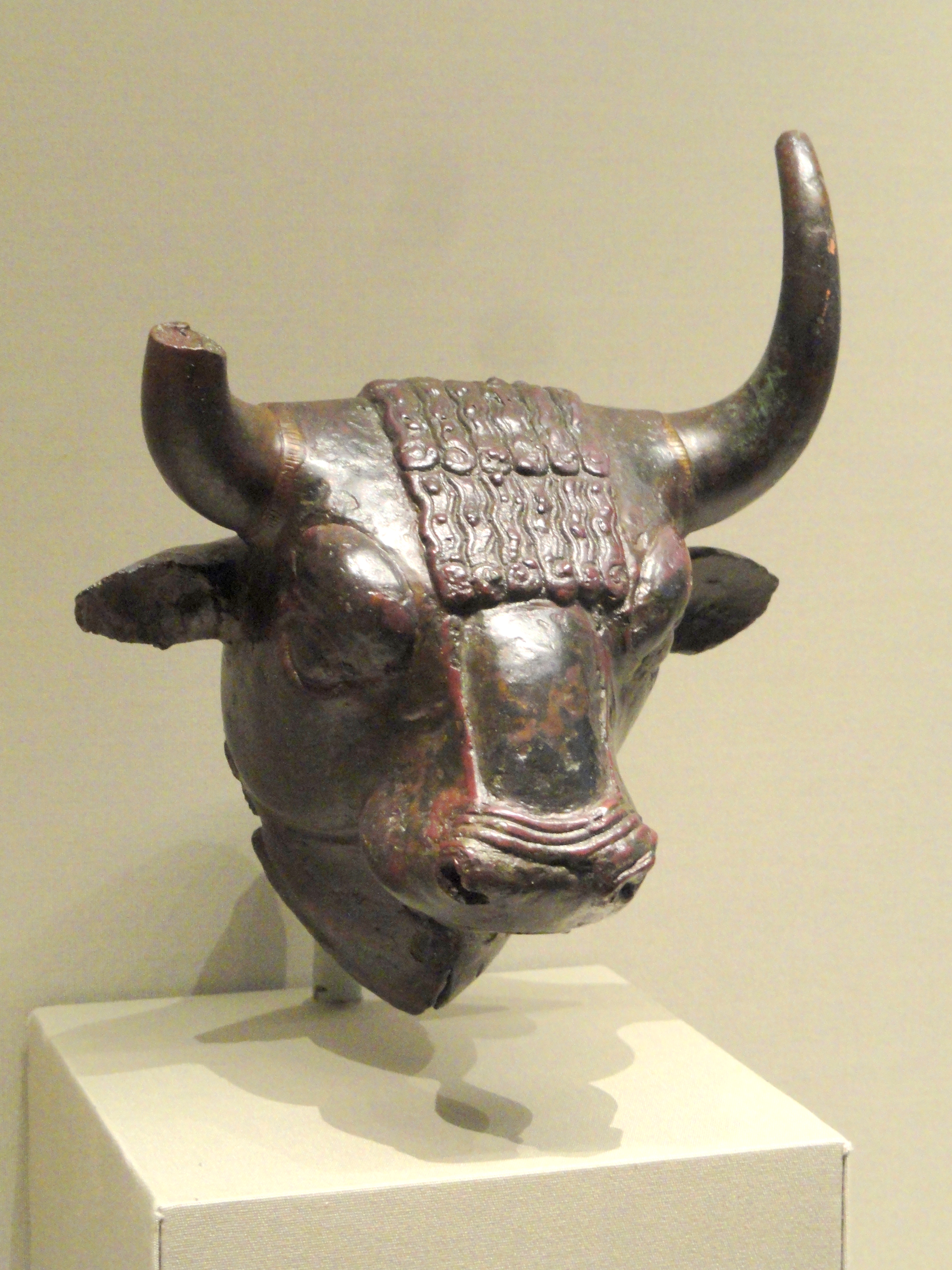 Exhibit in the Cleveland Museum of Art, Cleveland, Ohio, USA. This artwork is old enough so that it is in the public domain.